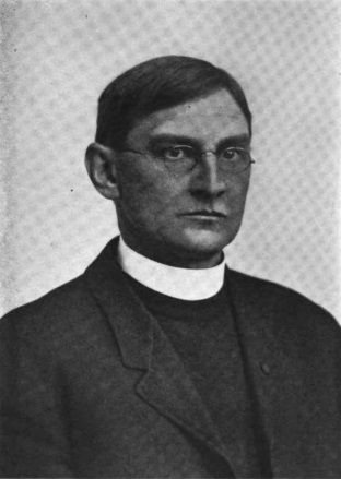 The Rt. Rev. Franklin S. Spalding, elected Missionary District of Salt Lake, 1904.